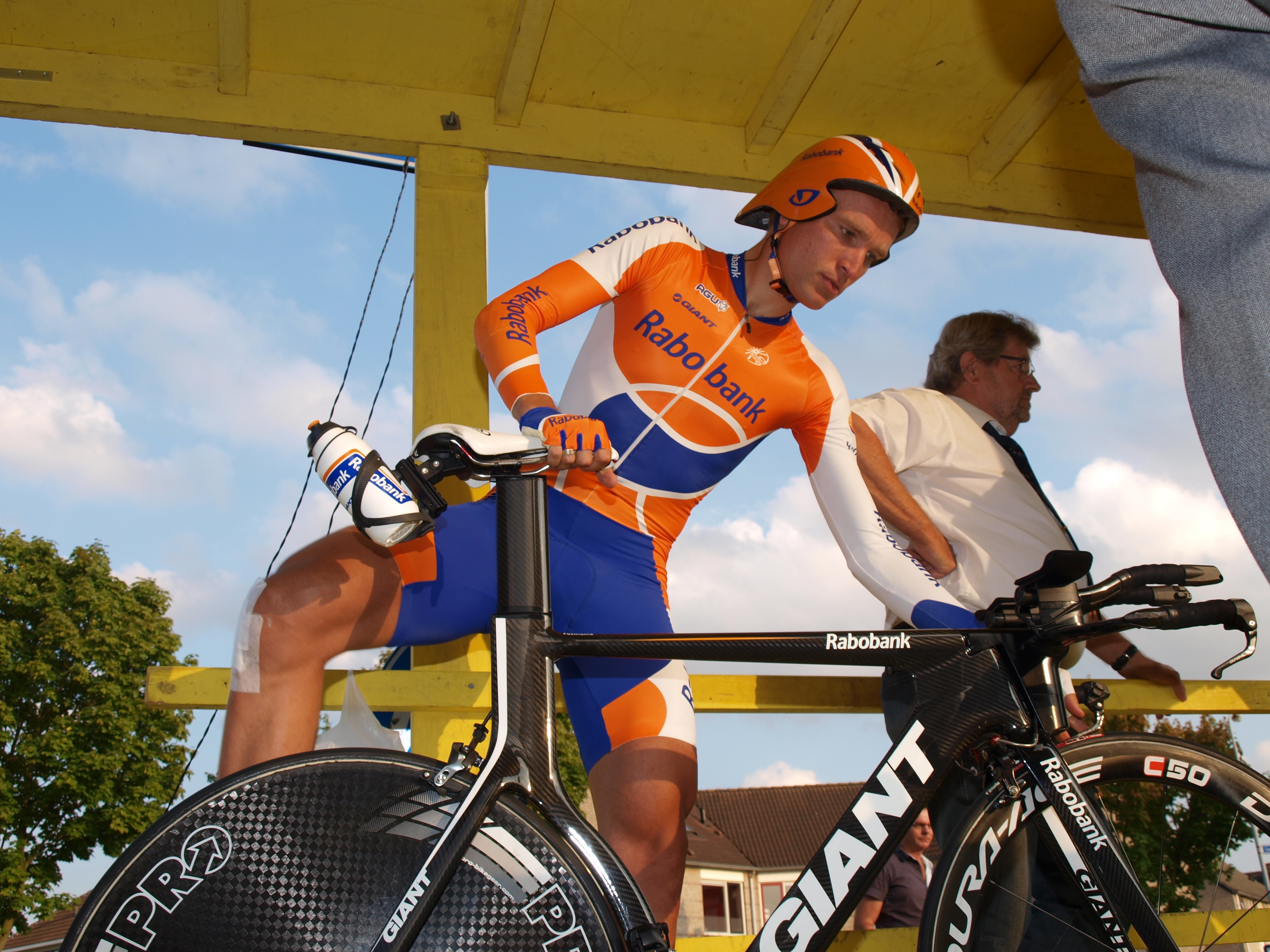 Getting ready to start.